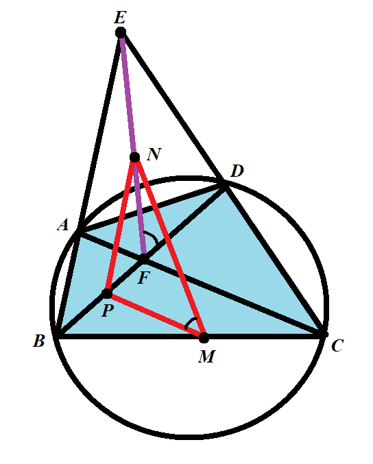 The Newton-Gauss Line displayed with angular equality between points of the complete quadrilateral and the parallel to the Newton-Gauss Line